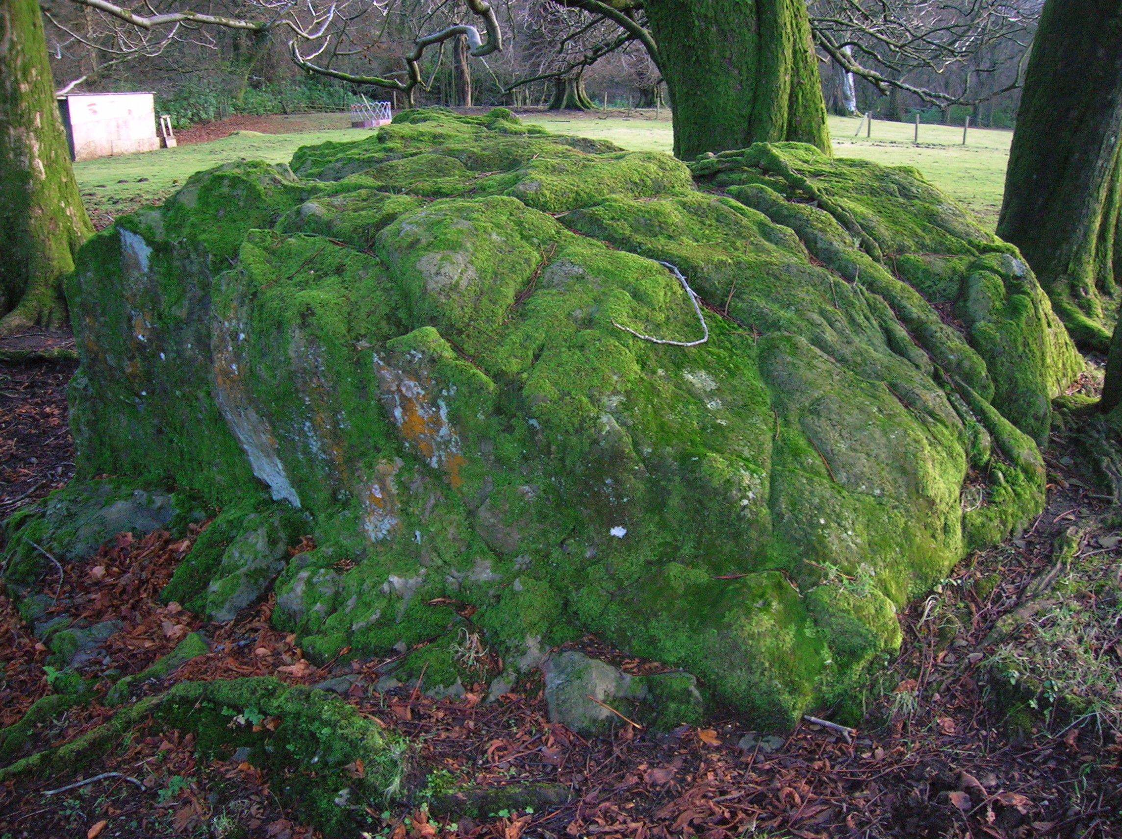 The Deil's Chuckie Stane at Ladyland House, Kilbirnie, North Ayrshire, Scotland